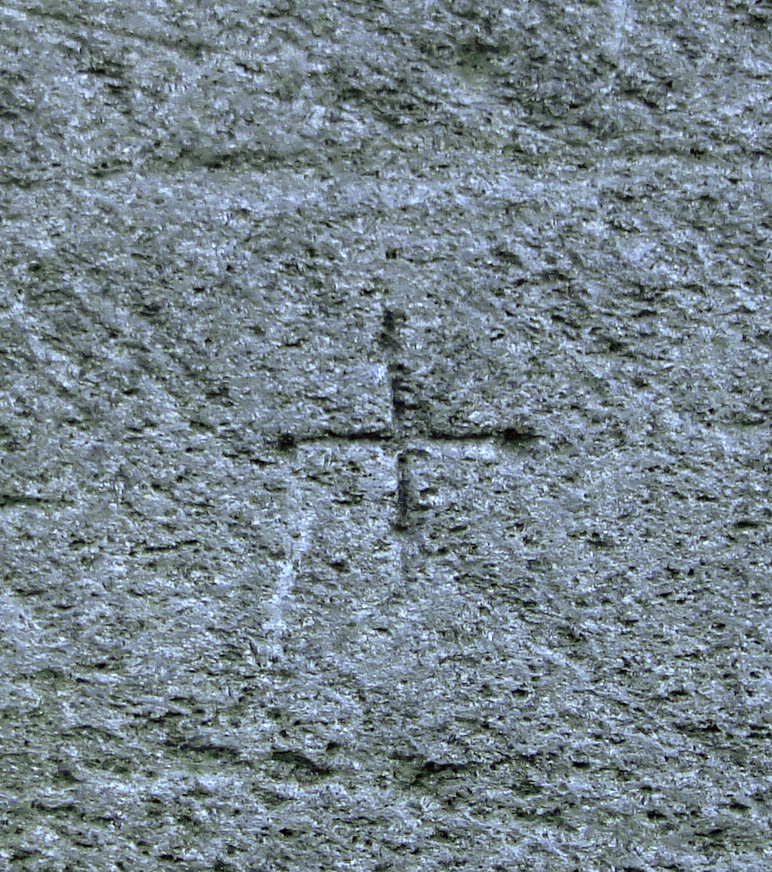 Stonemason's mark from the romanesque period, exterior of northern transept, Trondheim Cathedral